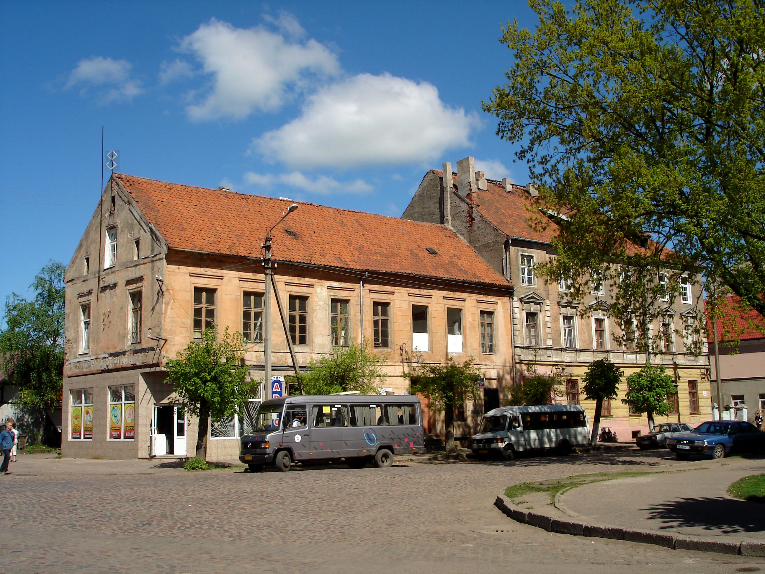 Sovetsk